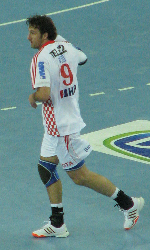 Igor Vori